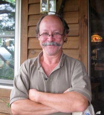 Photograph of Dr. Mark S. George in western North Carolina.